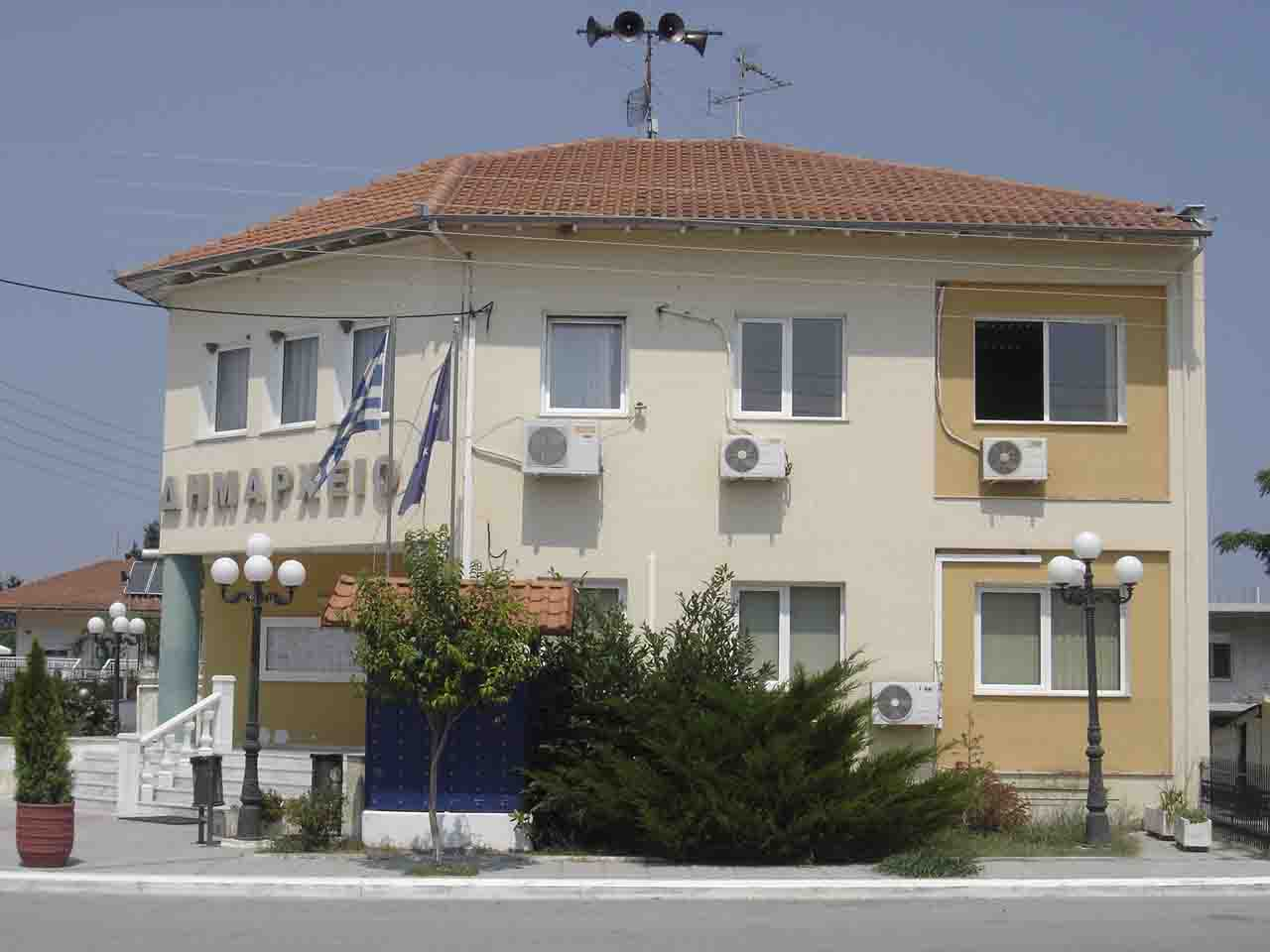 The city hall of Paralia Municipality, in Kallithea.